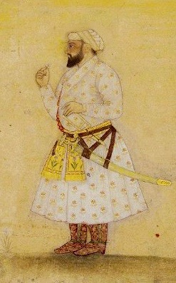 Cropped derivative work of Guru teg bahadur.jpg available on wikimedia commons under creative commons license.